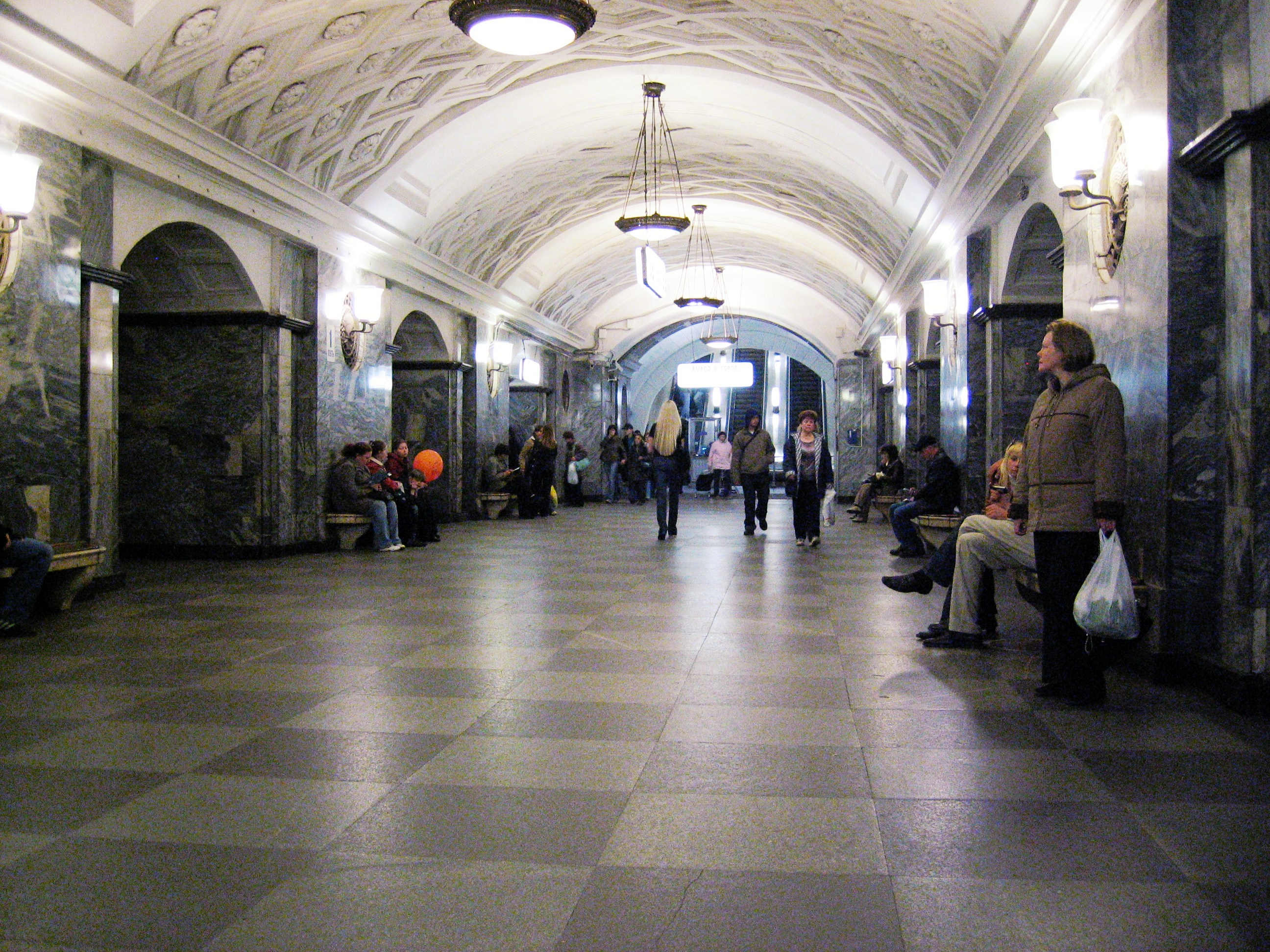 Kurskaya (APL) station of Moscow Metro